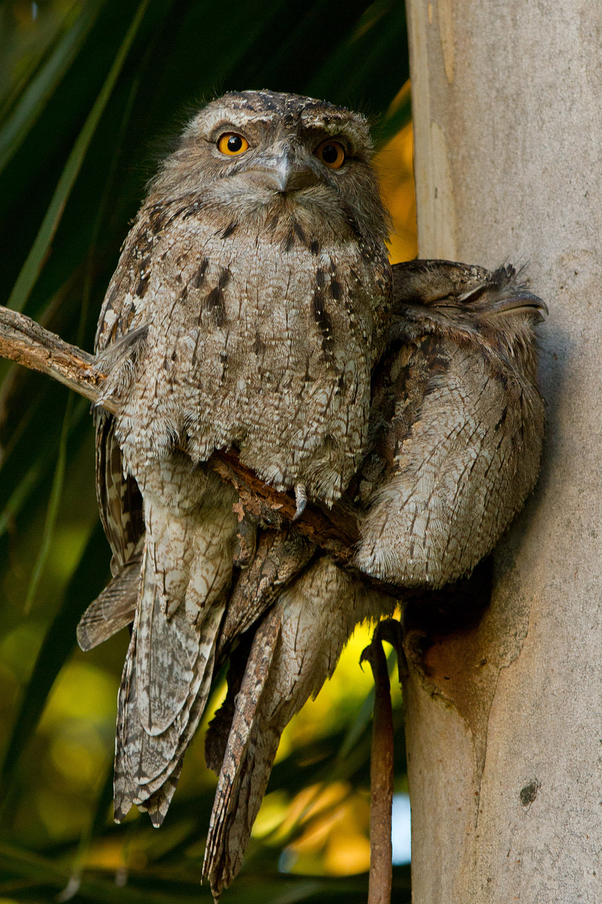 A pair of Tawny Frogmouth (Podargus strigoides) - Brisbane Botanical Gardens, Queensland, Australia. 6 July 2013.